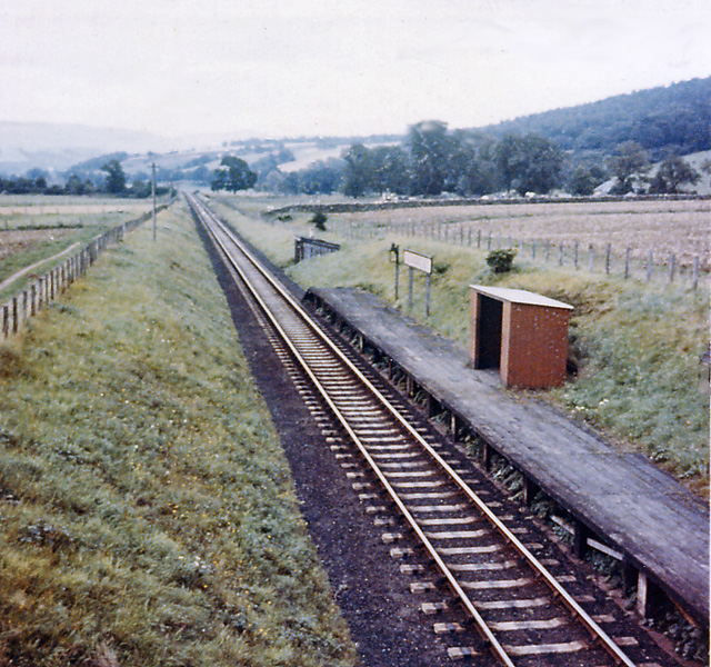 Balnaguard Halt. View westward, towards Aberfeldy in Strath Tay. Branch from Ballinluig, closed 3/5/65.